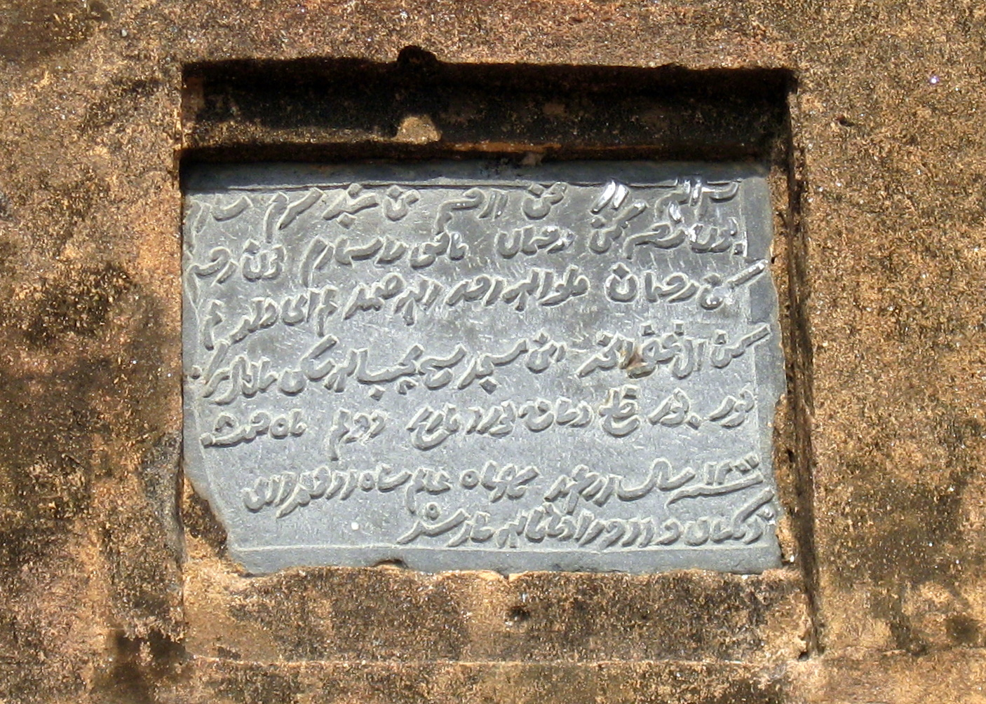 Nayabad Mosque is situated on the bank of the Dhepa river in village Nayabad of Ramchandrapur Union under Kaharol Thana of Dinajpur district. The mosque is about 20 km north-west of the district town. The mosque, built on about 1.15 bighas of land, has been renovated by the Department of Archaeology, Bangladesh.